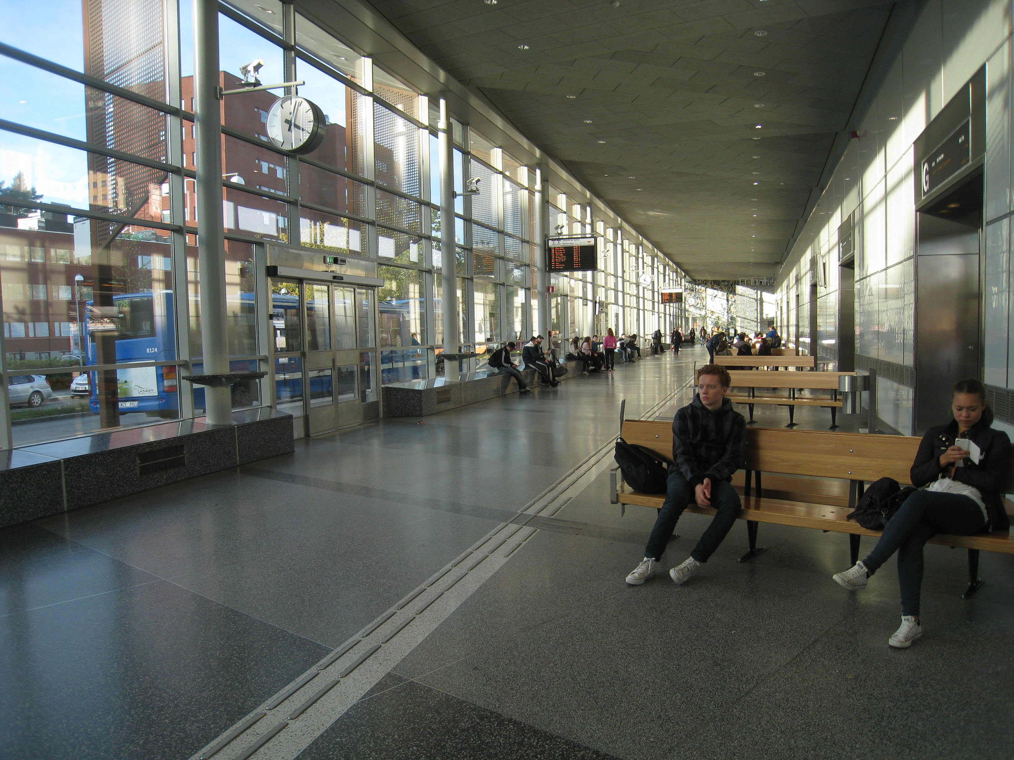 The bus terminal in Jakobsberg, Järfälla, Stockholm County.